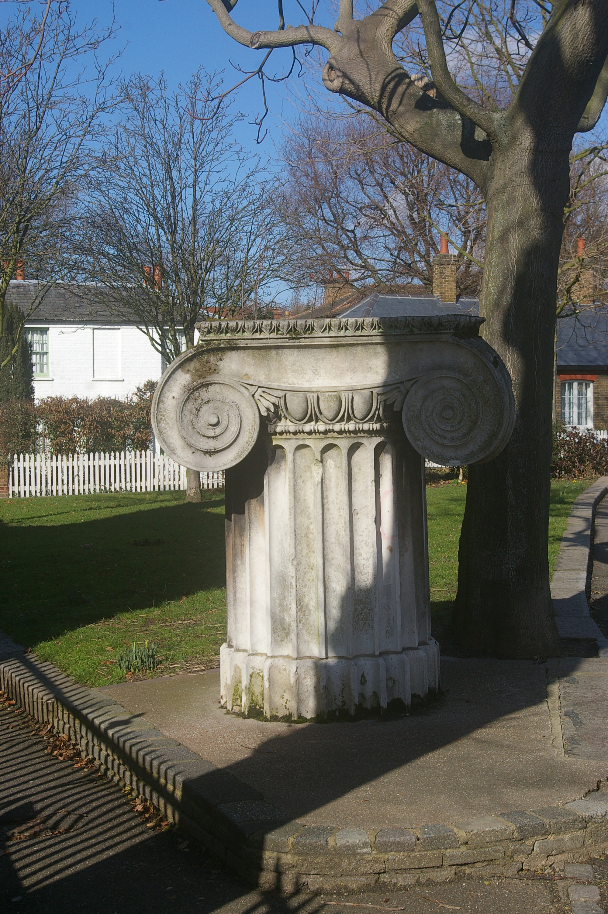 Ionic capital, Vestry House Museum, Walthamstow, London E17 Situated outside the Vestry House Museum, this Ionic capital is a survivor from the General Post Office building in the City of London demolished in 1912. But how did it get there, and why?